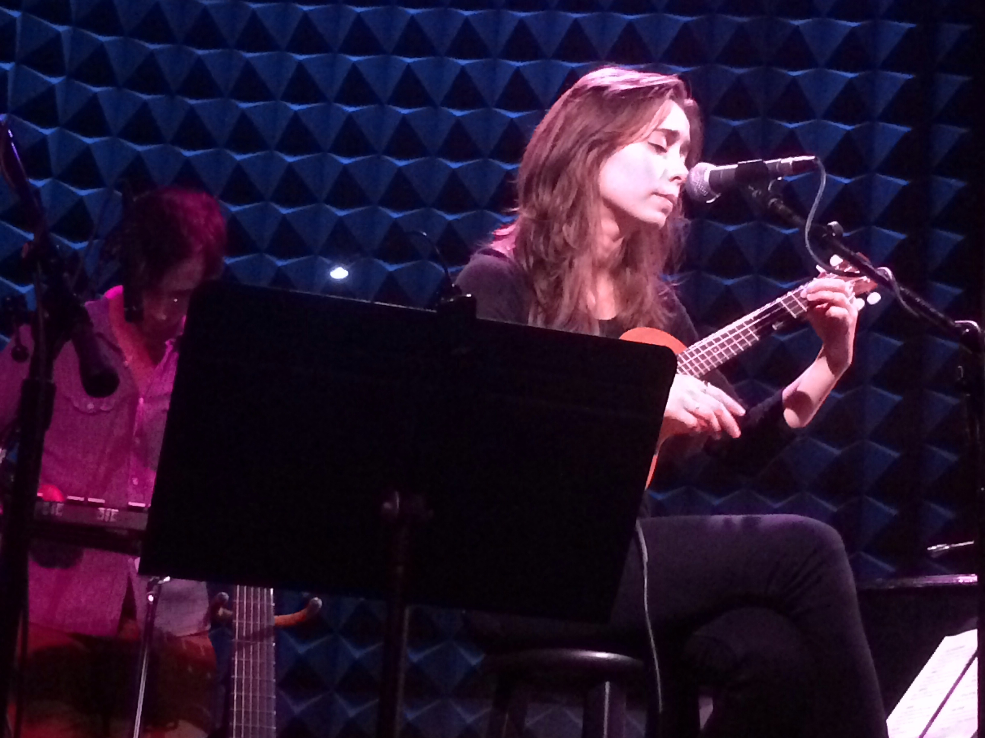 Cristin Milioti playing music